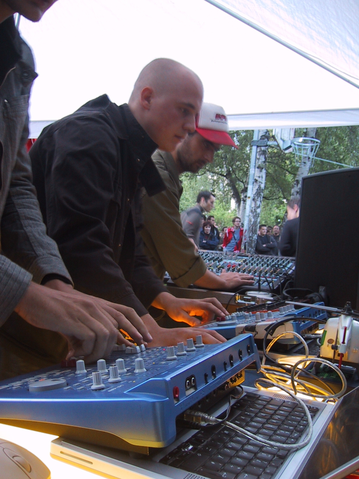 Moderat in Berlin. Originally posted at